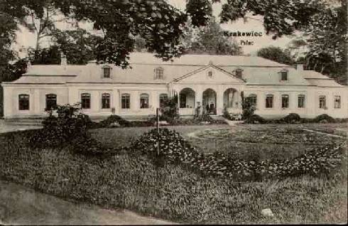 1910, palace in Krakovets (before 1945 Krakowiec)